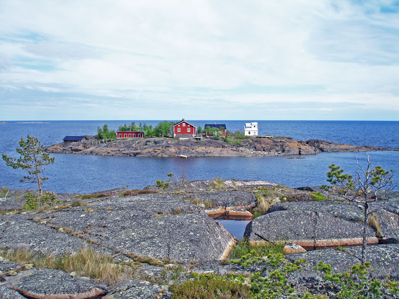 Gråklubben, the island where the old lighthouse of Skag was until 1957.